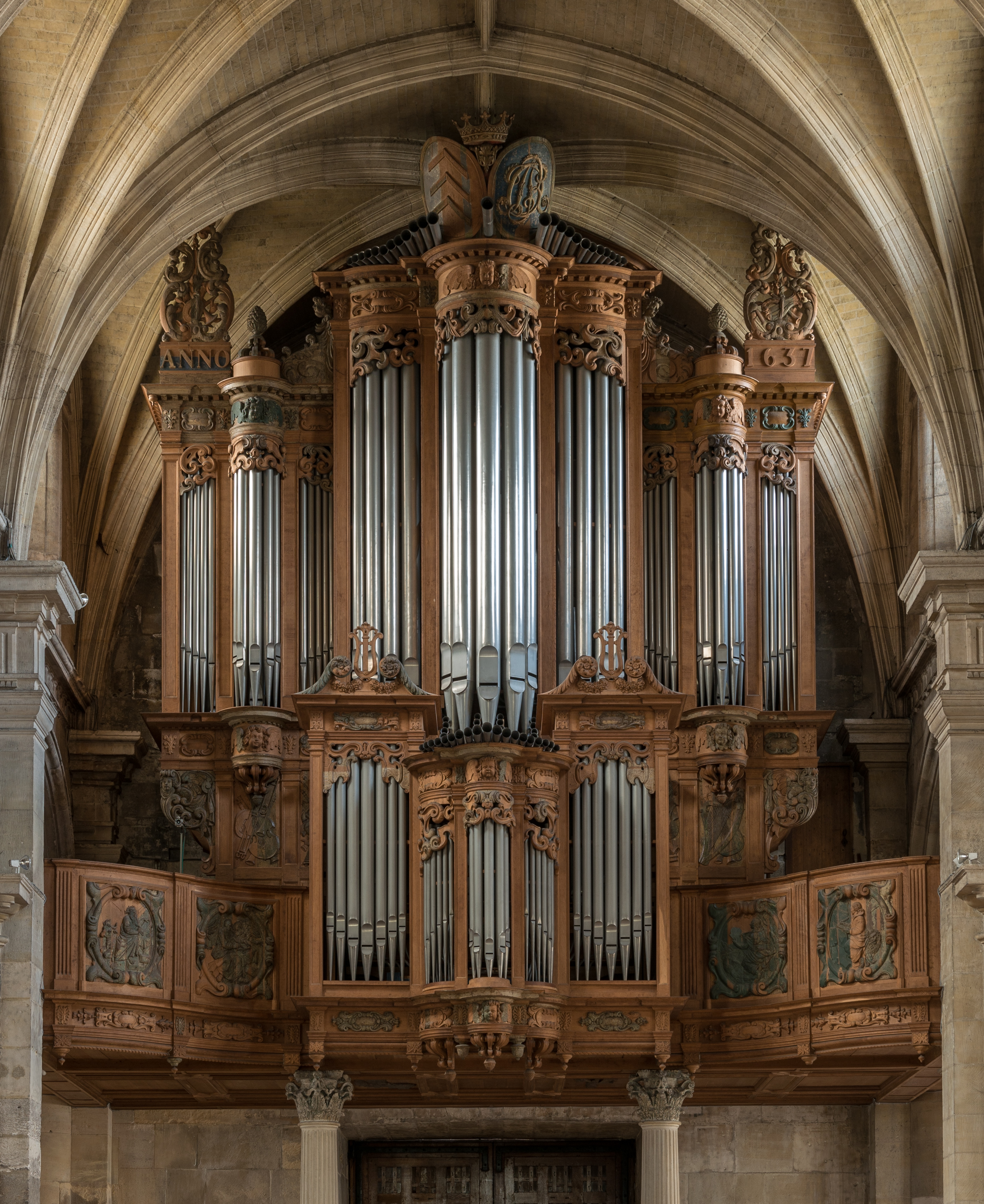 The organ of Le Havre Cathedral